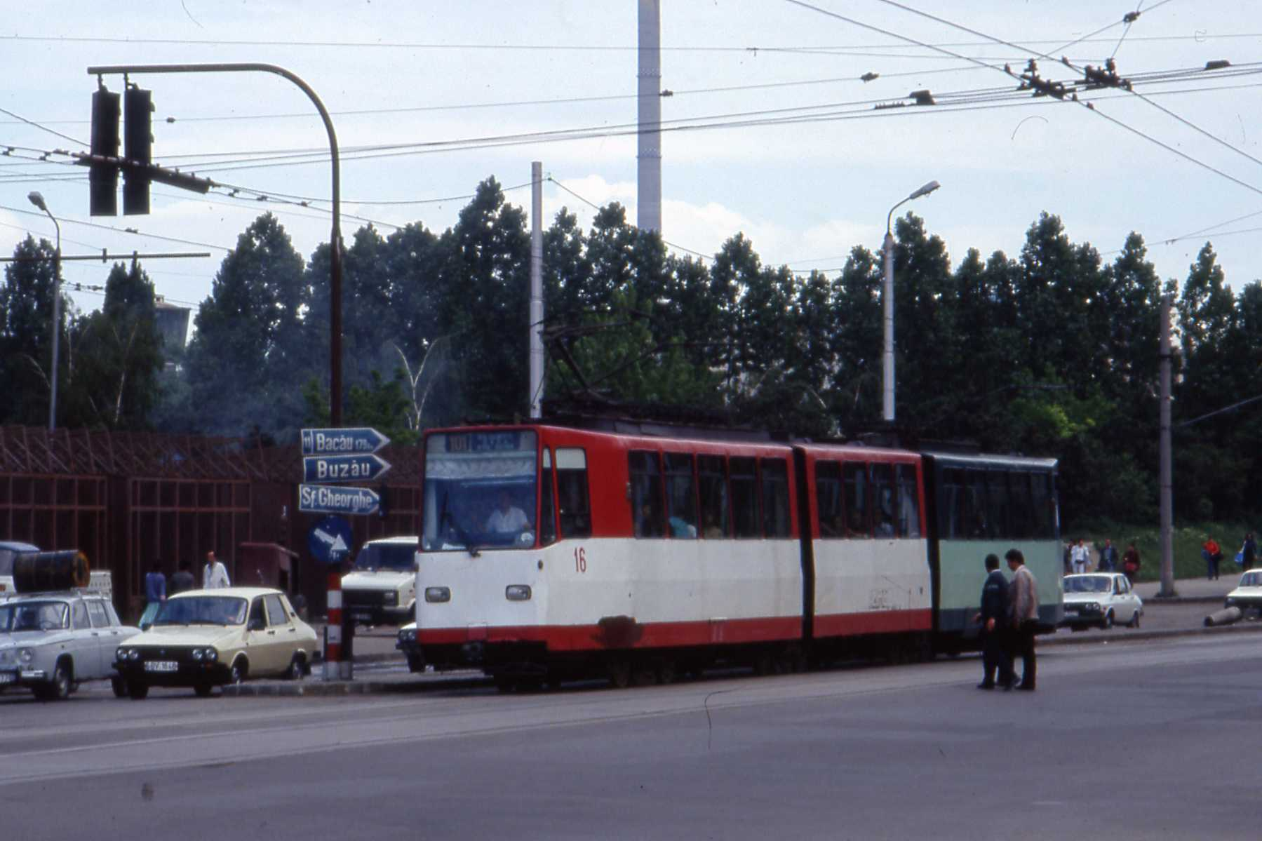 Tram in Brasov, Romania in 1994.